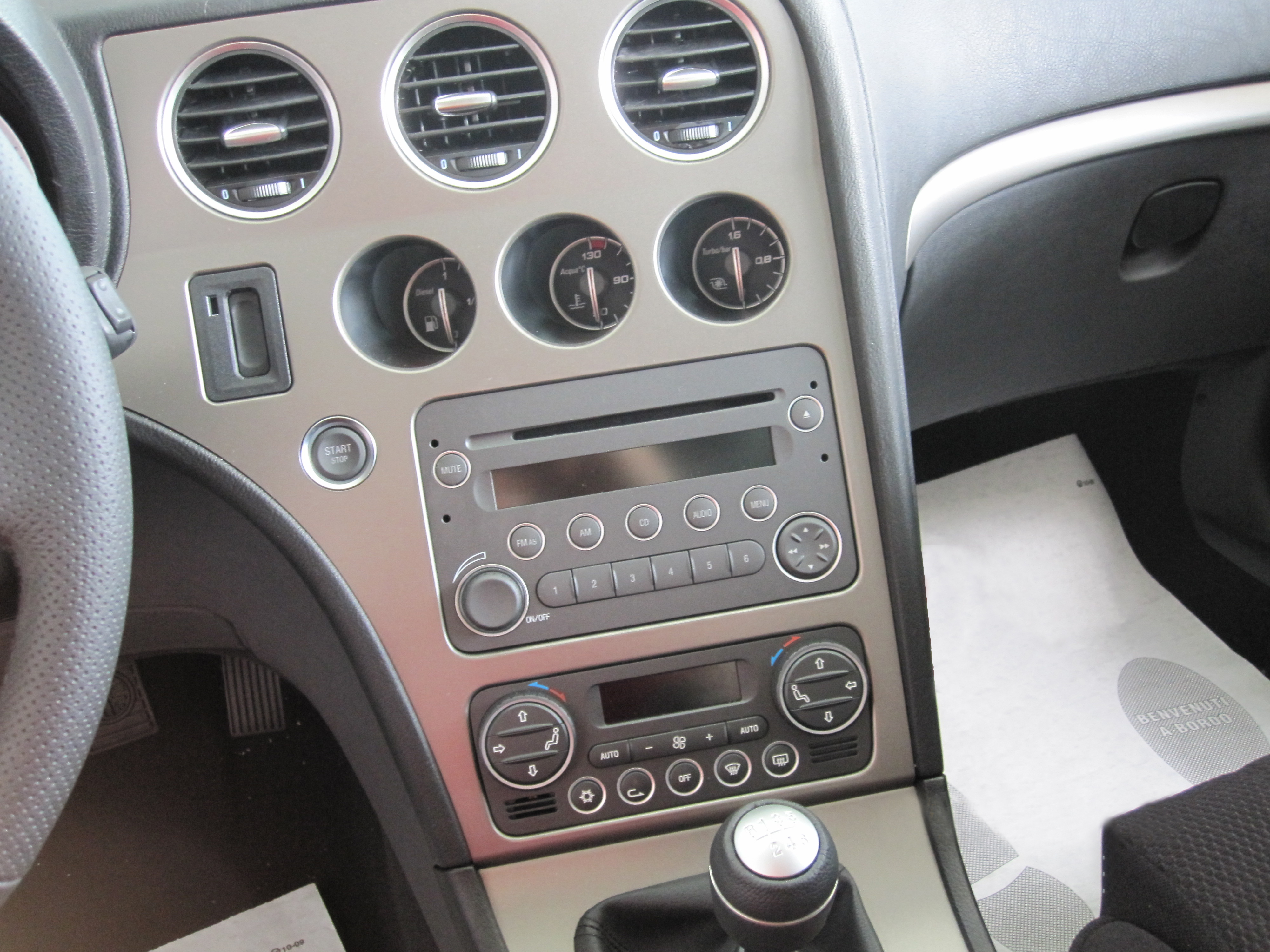 detail of the interior of an Alfa Romeo 159